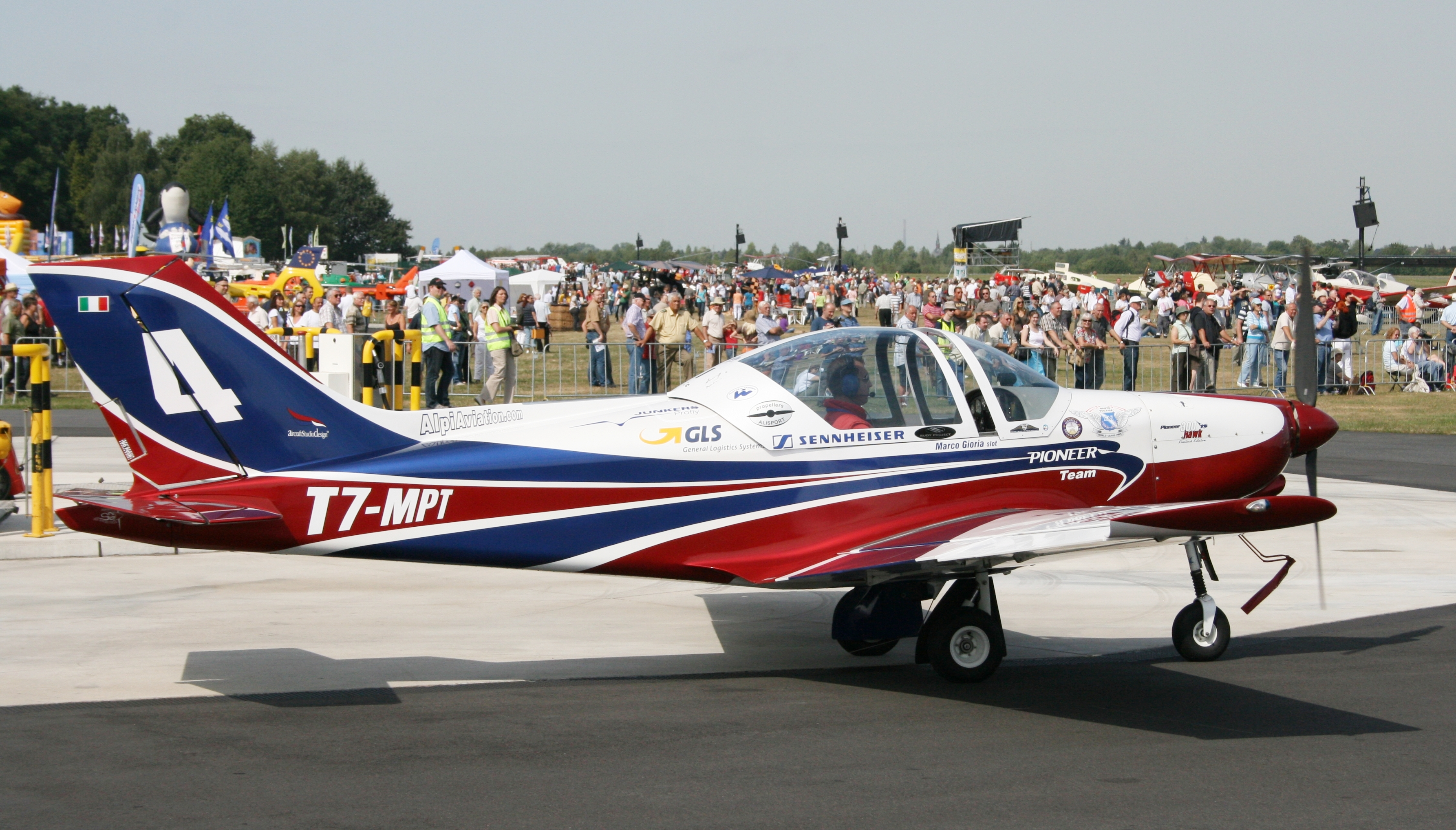 Aircraft Alpi Aviation Pioneer 330 (part of formation flight team "Pioneer Team") at airfield Bonn/Hangelar, germany; open day/airport party and airshow